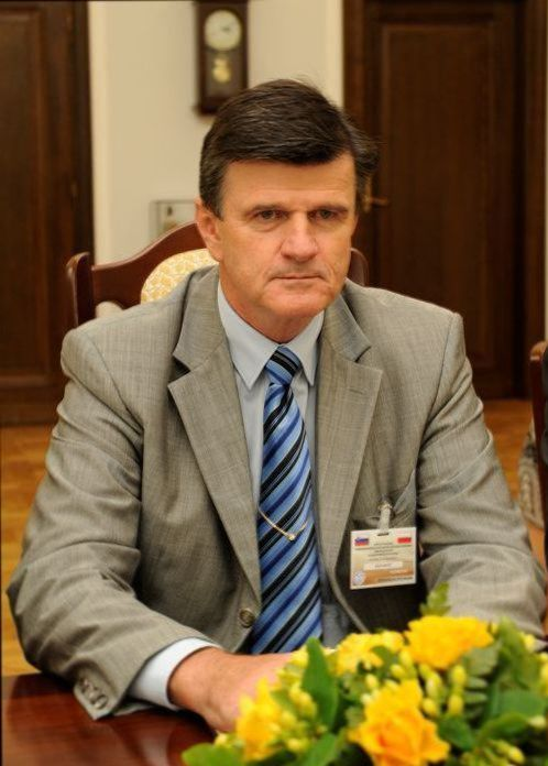 President of the National Council of Slovenia Blaž Kavčič in the Polish Senate